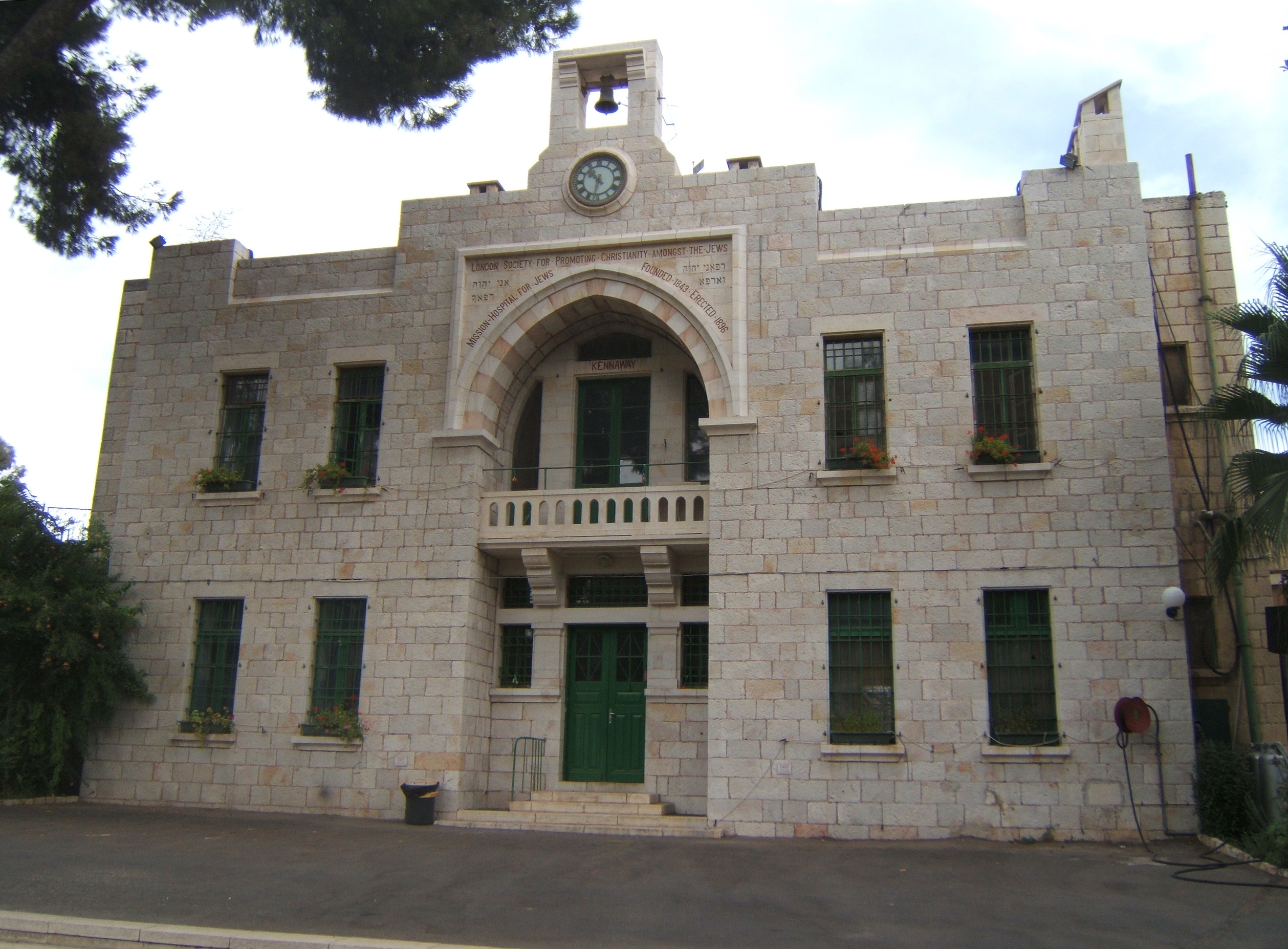 English Mission Hospital, Jerusalem